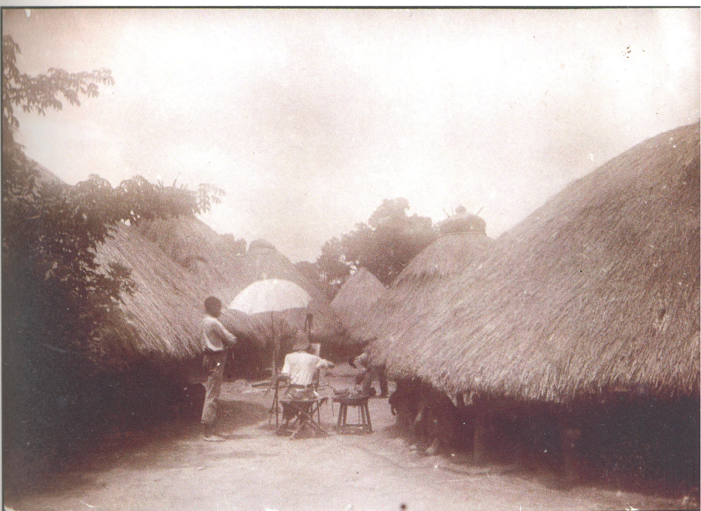 Carl Arriens and two men in a Tiv village, Salatu, Benue region (Nigeria) in August 1911. Collection Frobenius Institute, Frankfurt am Main (Germany)